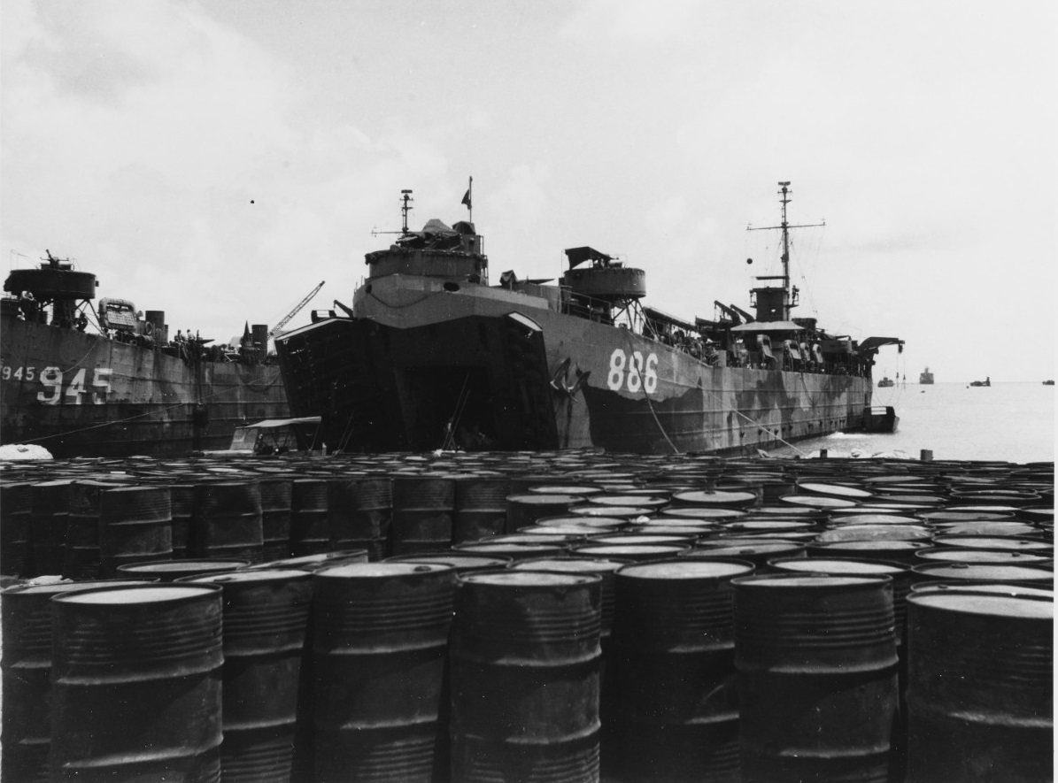 USS LST-886 at Tinian, circa December 1944-September 1945, USS LST-945 is at left.